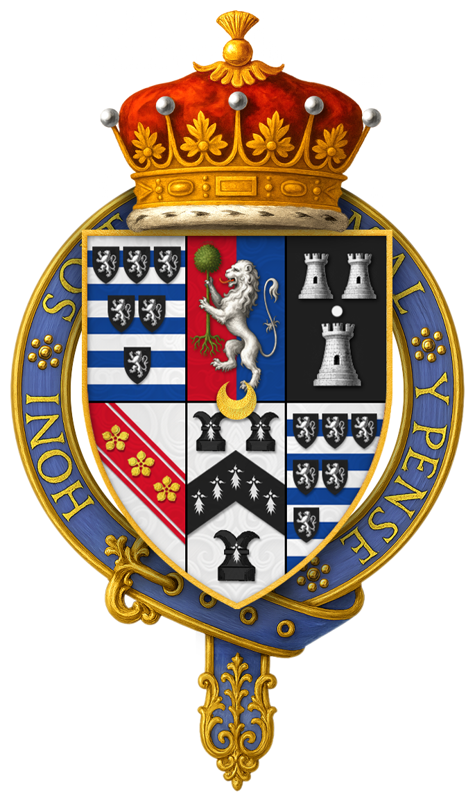 Coat of arms Sir Robert Cecil, 1st Earl of Salisbury, KG